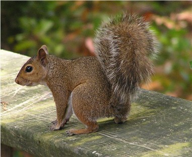 According to the uploader this is an Eastern Gray Squirrel [Grauhörnchen] (Sciurus carolinensis) - "grijze eekhoorn emeraldisle NC".